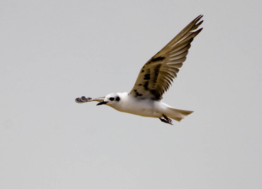 Chlidonias leucopterus, winter plumage. Lake Tana, near Bahir Dar, Ethiopia